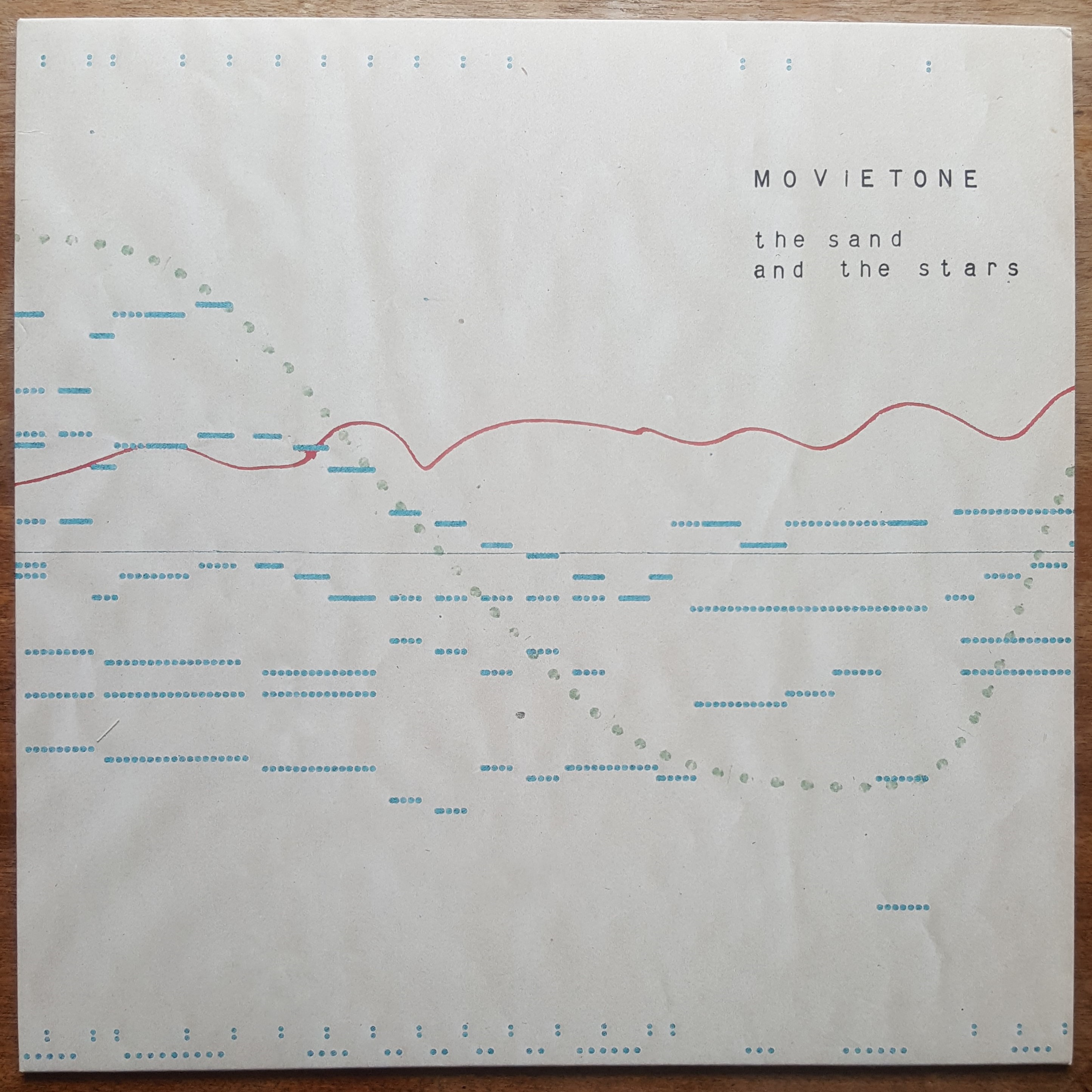 Movietone, The Sand and the Stars LP, Domino Records 2003